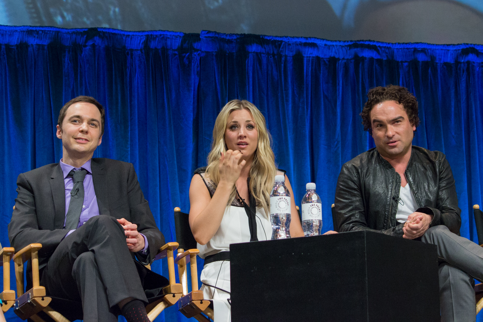 Jim Parsons, Kaley Cuoco and Johnny Galecki at PaleyFest 2013 for the TV show "Big Bang Theory"